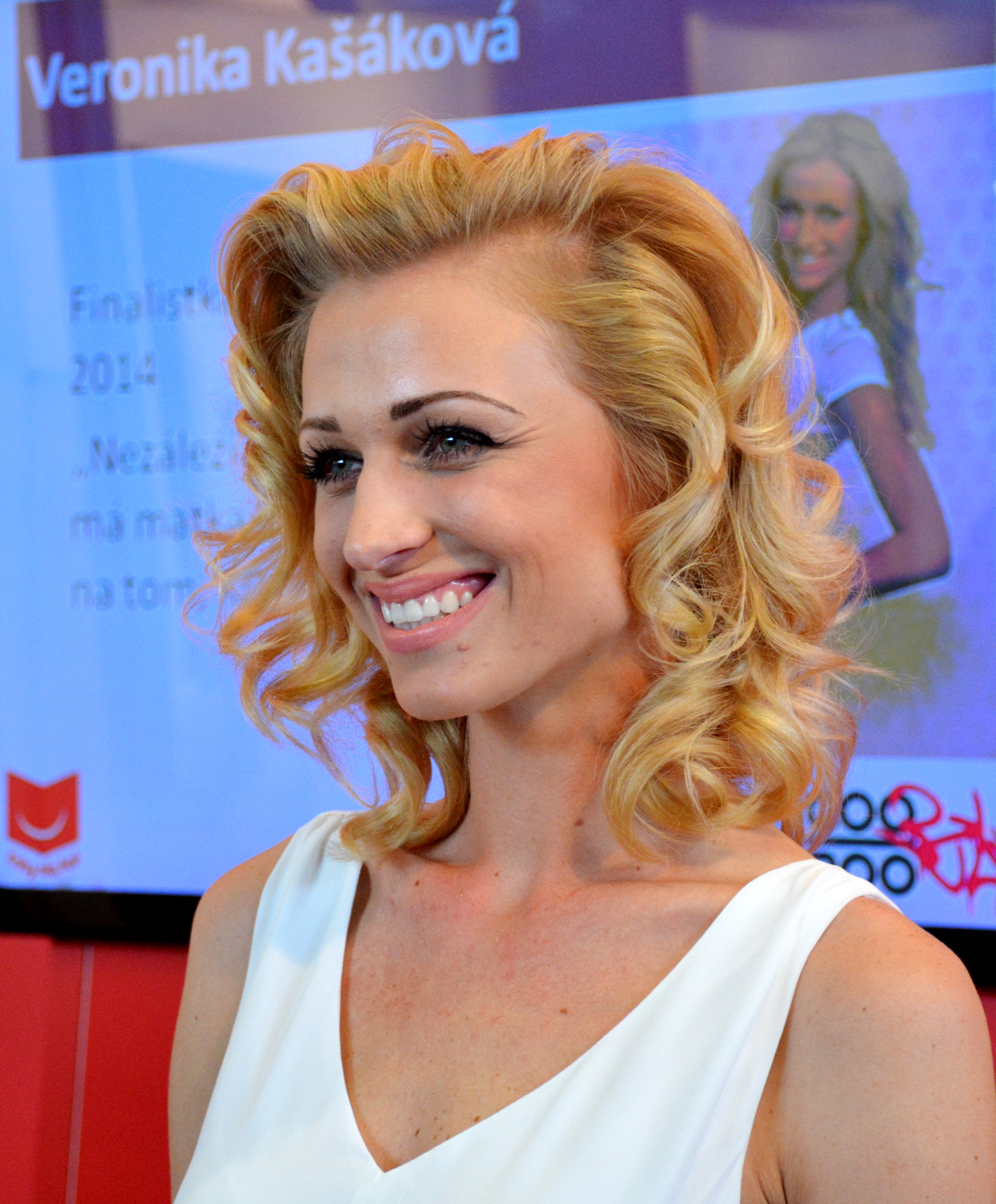 Veronika Kašáková, Czech model